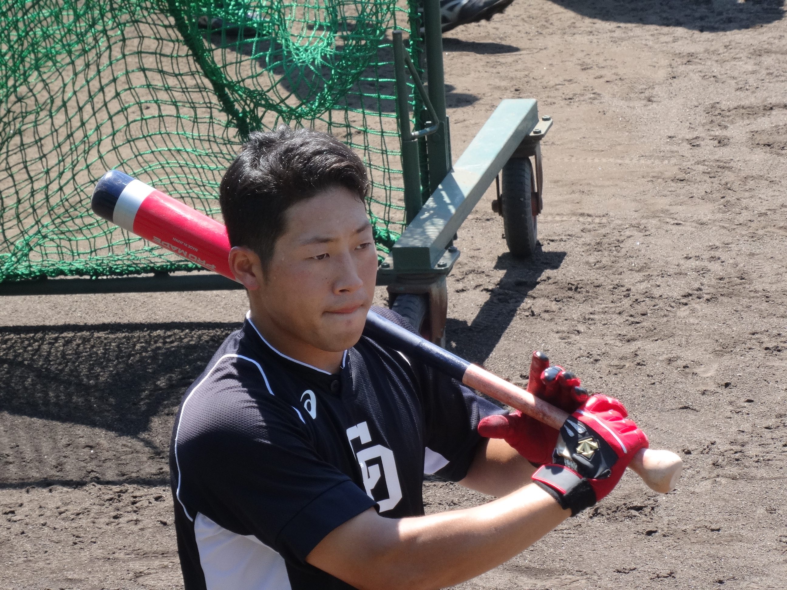 Shota Tomonaga, outfielder of the Chunichi Dragons, at Hanshin Naruohama Baseball Ground